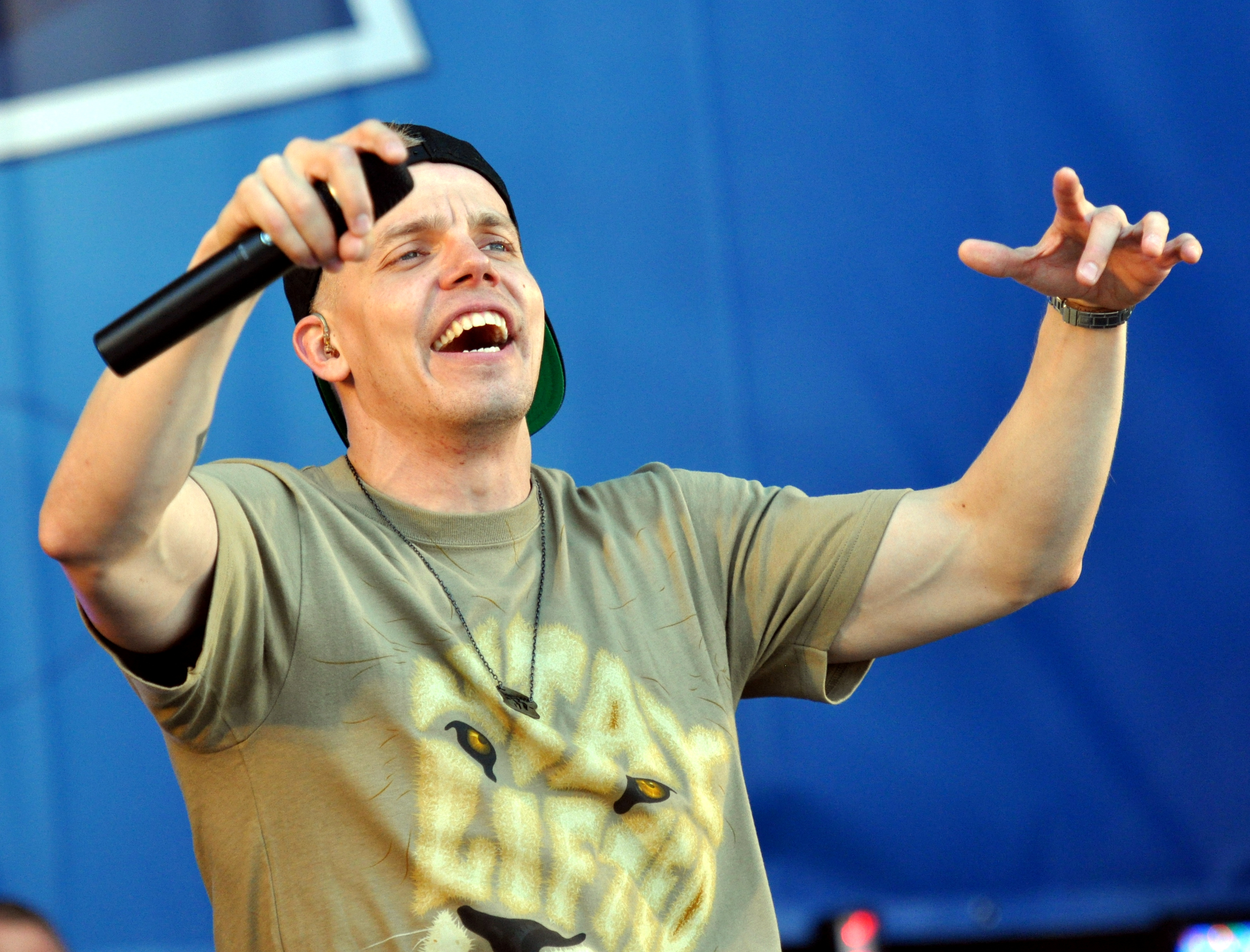 Elastinen esiintymässä Kiekkotorilla Sanomatalon edustalla.